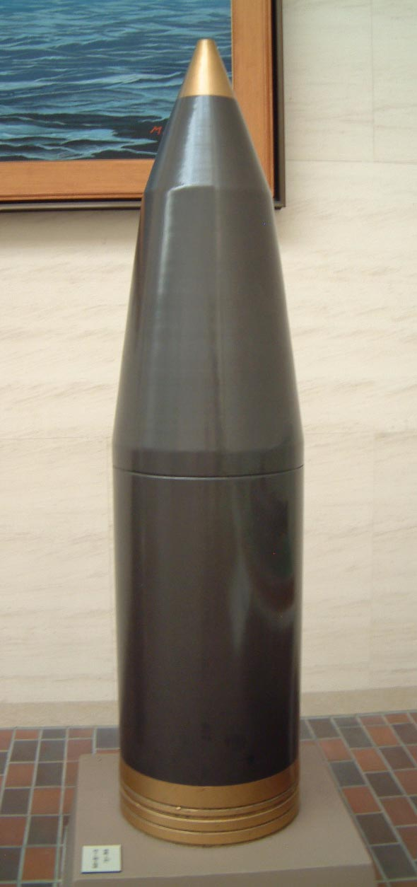 Japanese 46 cm Type 0 HE Shell as fired by the Battleship Yamato at the Yasukuni Shrine.